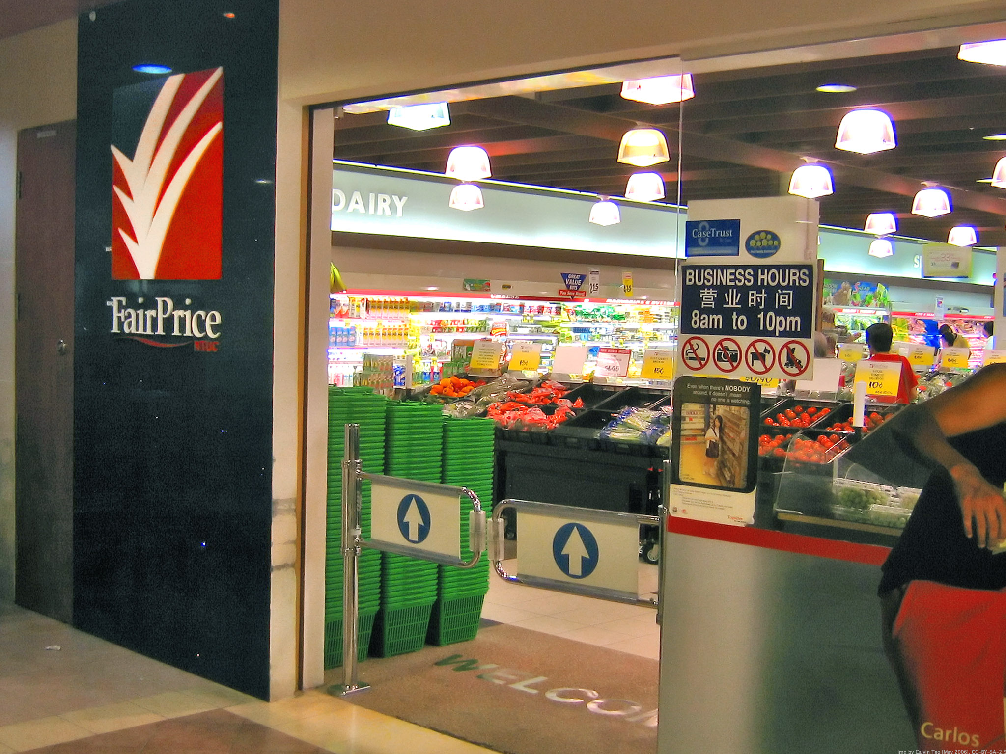 An NTUC FairPrice supermarket in Singapore, depicting the entrance, grocery and dairy products section.